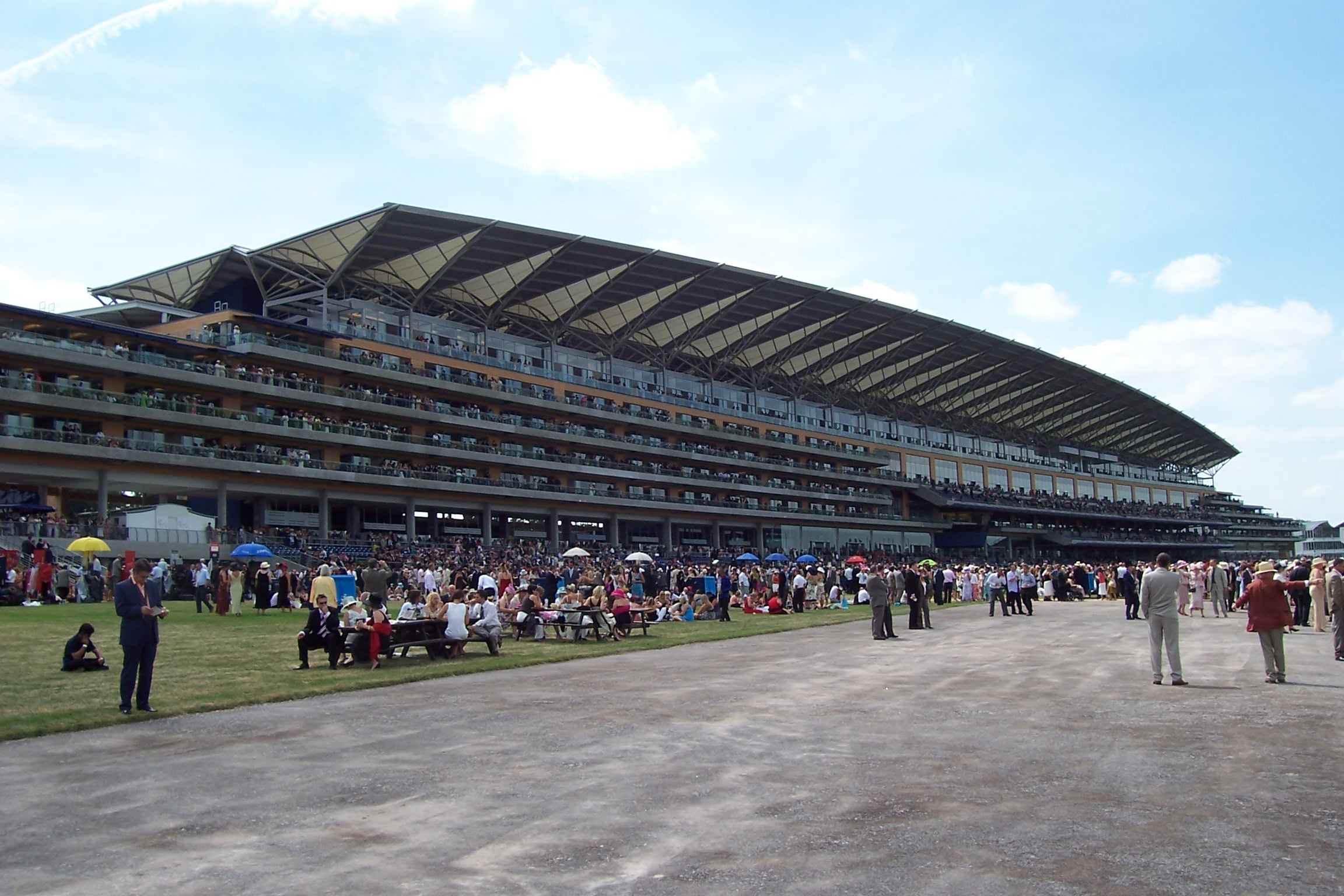 Royal Ascot 2006 - Royal Enclosure